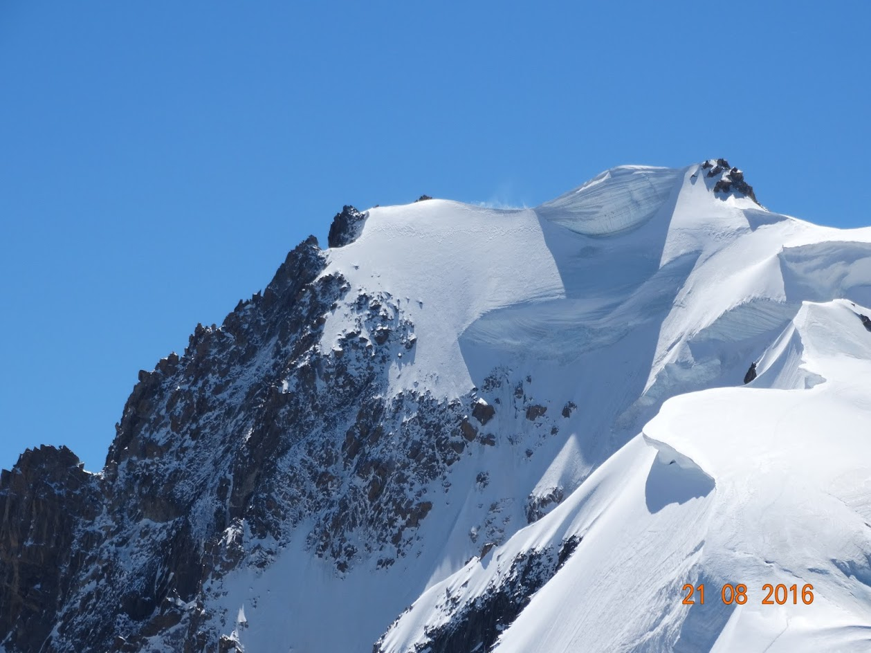 Mont Blanc du Tacul (view from Aiguill du Midi)